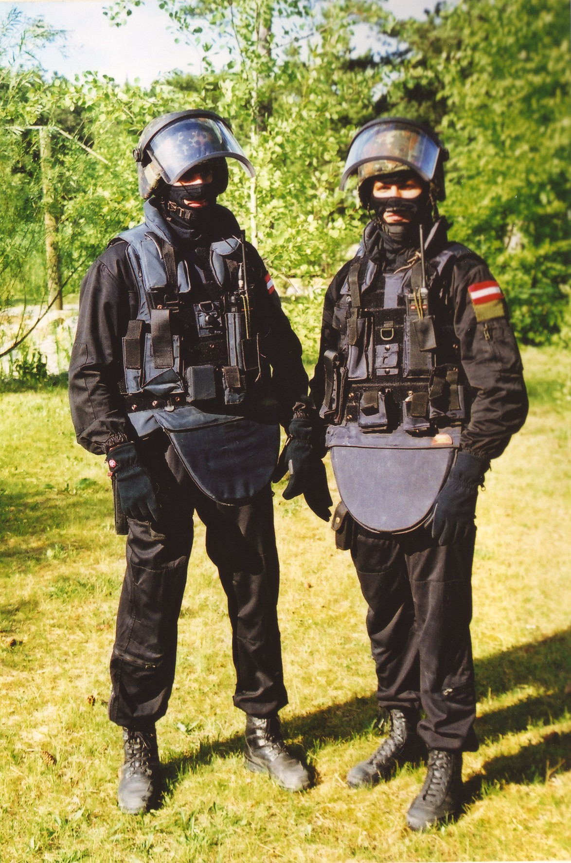 Two members of the austrian Counter-Terrorism unit Einsatzkommando Cobra.